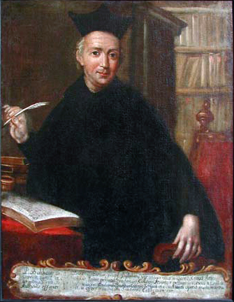 Portrait of Baltasar Gracian preserved in Graus, restored. The writer was assigned to the Jesuit college at the beginning of 1658 Graus retaliation for the publication of the three parts of the Critic (1651, 1653, 1657). The portrait was in school grausino of the Society annexed to the church of the Jesuits, which was dismantled in 1960. However, the portrait had been moved prior to the parish church of San Miguel de Graus.